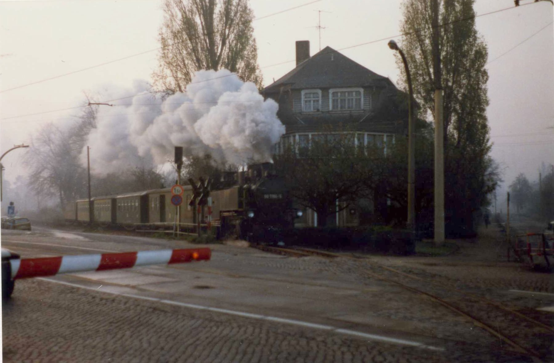 99 1786-5 crosses Meissenerstrasse in Radebeul.